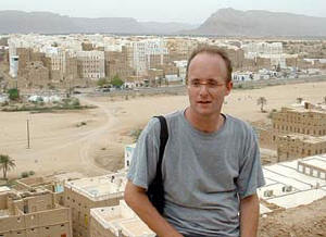 Description: Jonathan Cook, British journalist Copyright: Jonathan Cook, released by e-mail under a Creative Commons Attribution licence. E-mail to permissions.